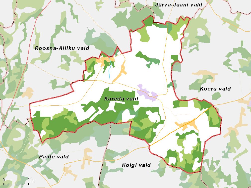 Map of municipality in Estonia